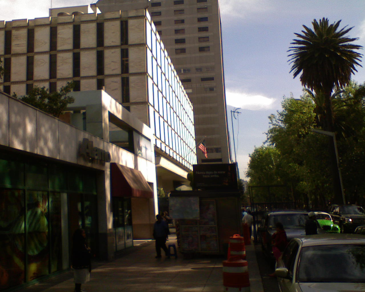 US embassy in Mexico City